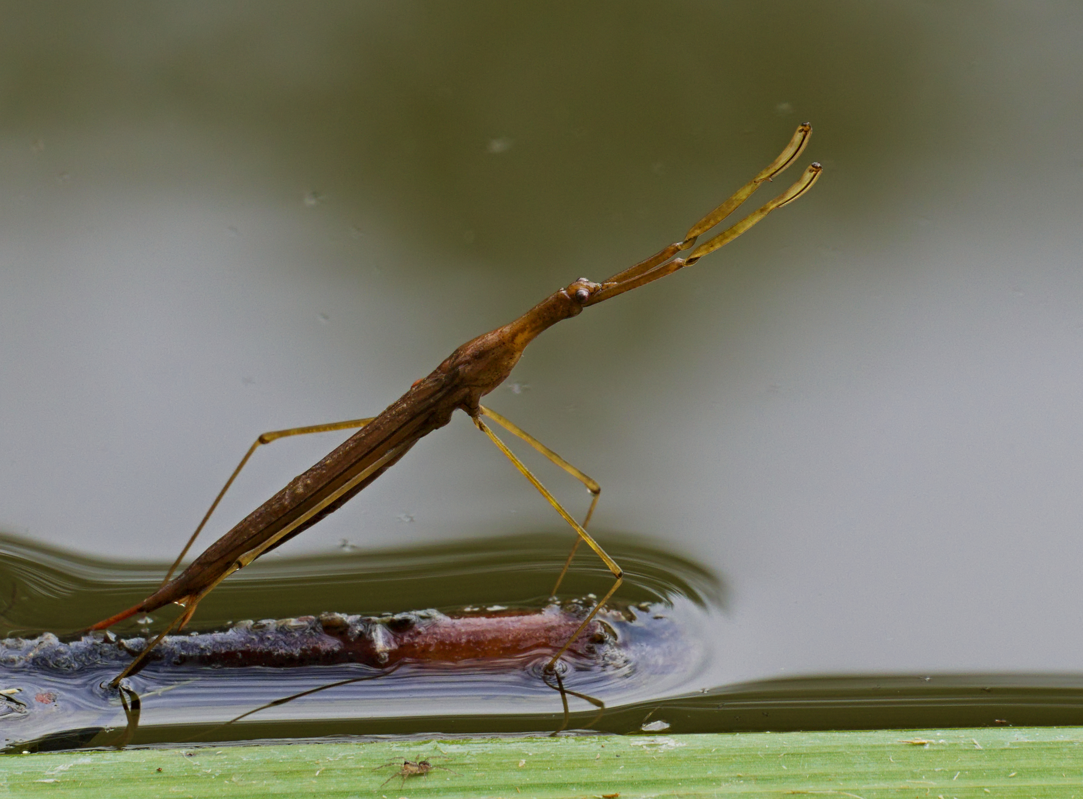 Ranatra linearis, female laying eggs. Taken by the fishing ponds in Rimbach, Hesse, Germany.